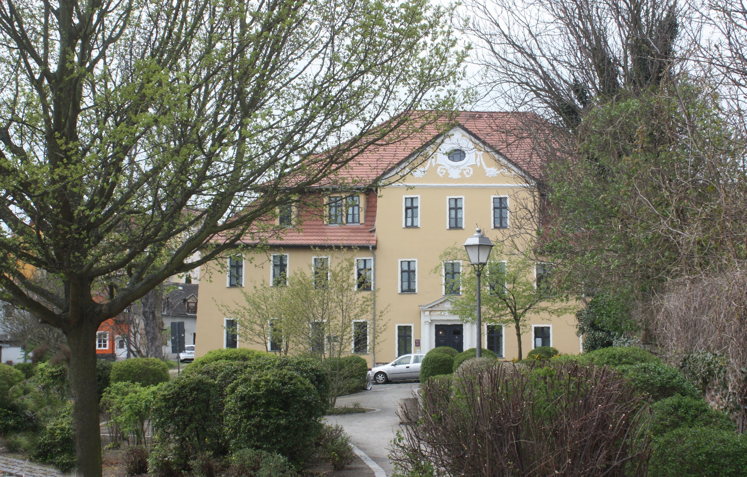 Eisleben, view from the Vikariatsgarten to the manor house of the Katharinenstift